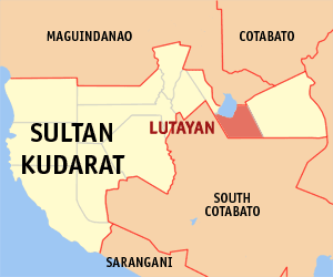 Map of the Sultan Kudarat showing the location of Lutayan